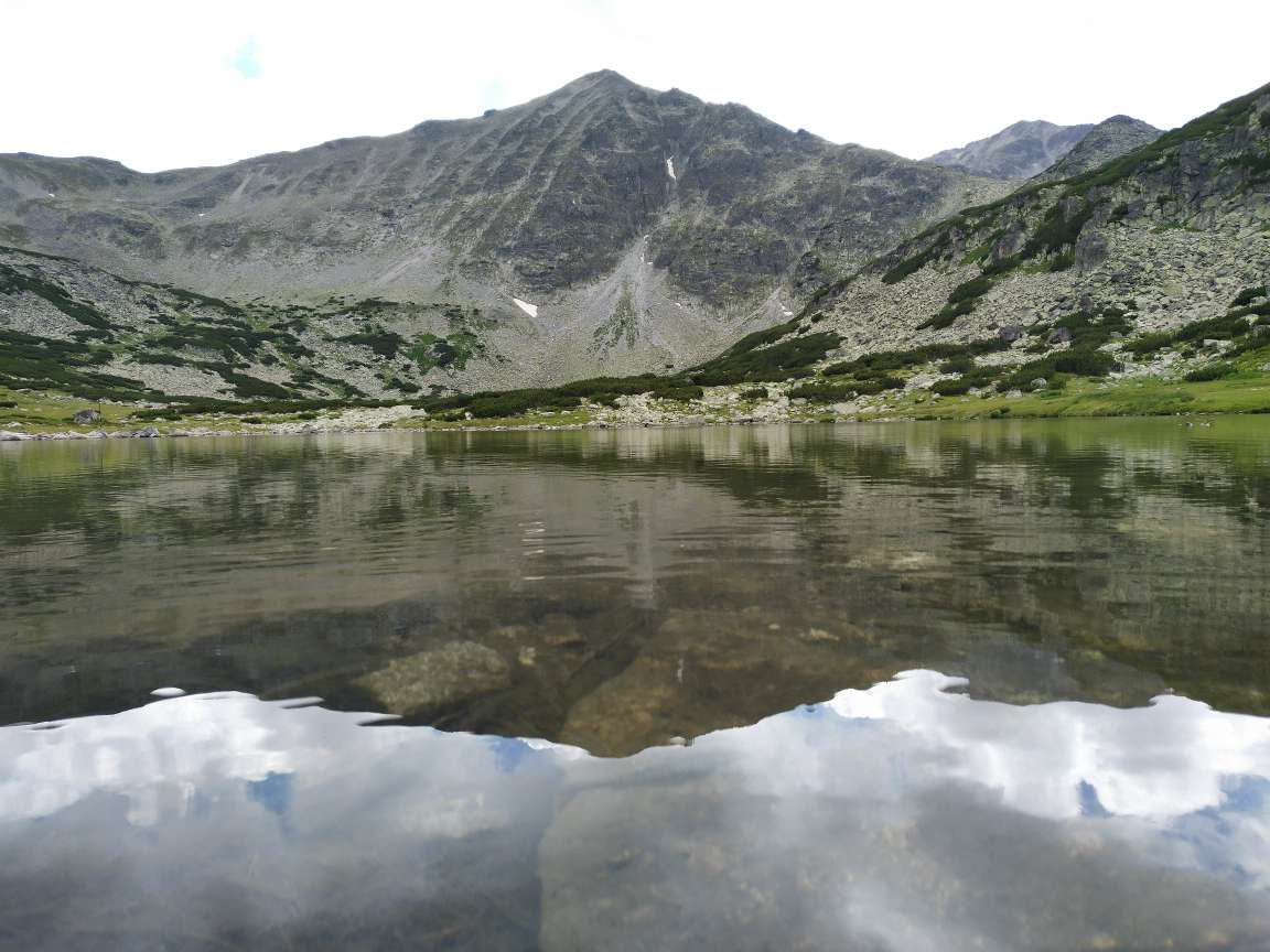 Irechek